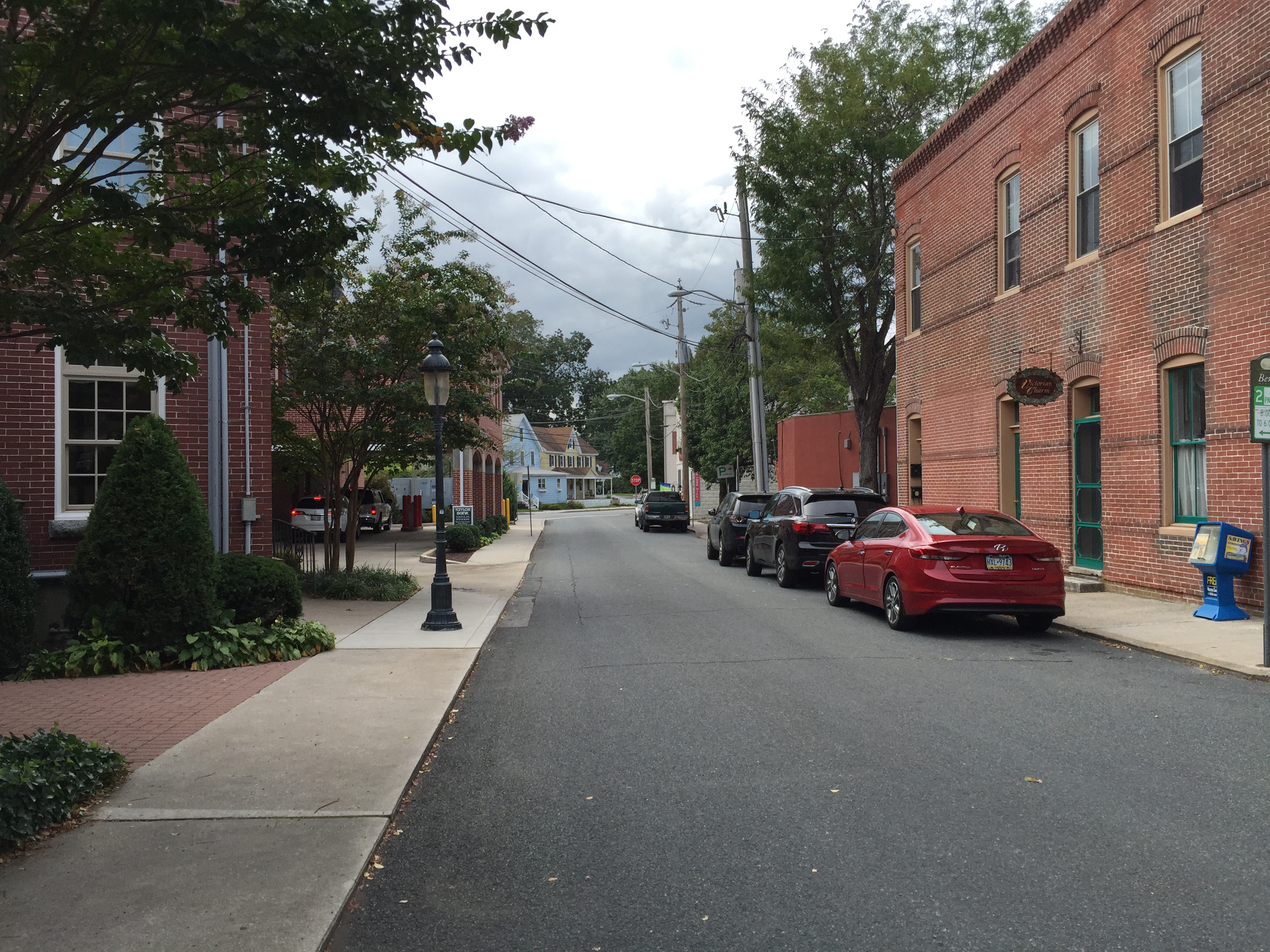 View west along Maryland State Route 375 (Commerce Street) at Maryland State Route 818 (Main Street) in Berlin, Worcester County, Maryland